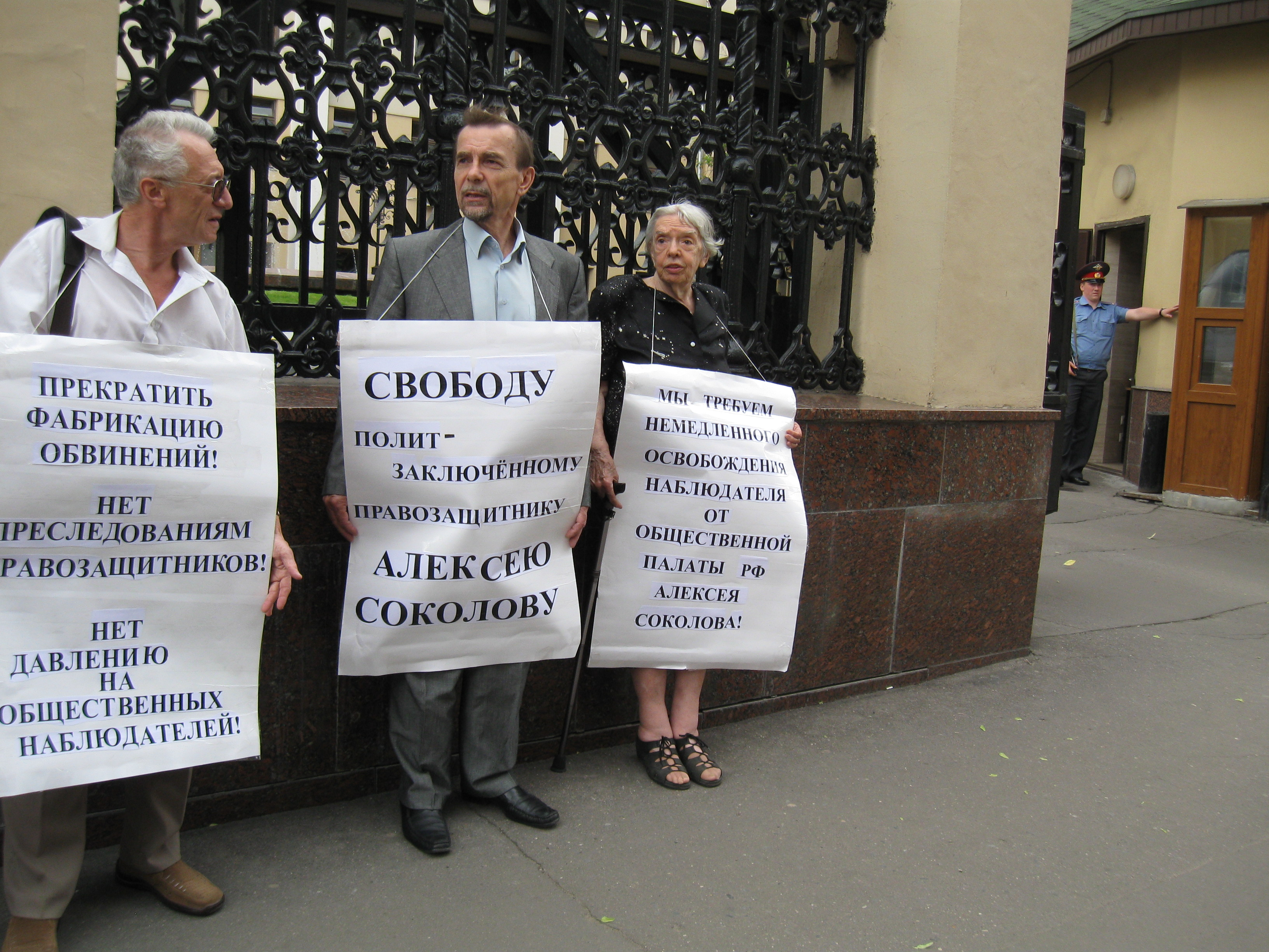 Valentin Gefter, Lev Ponomaryov, Lyudmila Alexeyeva. Picket in support of human rights defender Alexei Sokolov in front of the Russian Prosecutor General's Office in Moscow